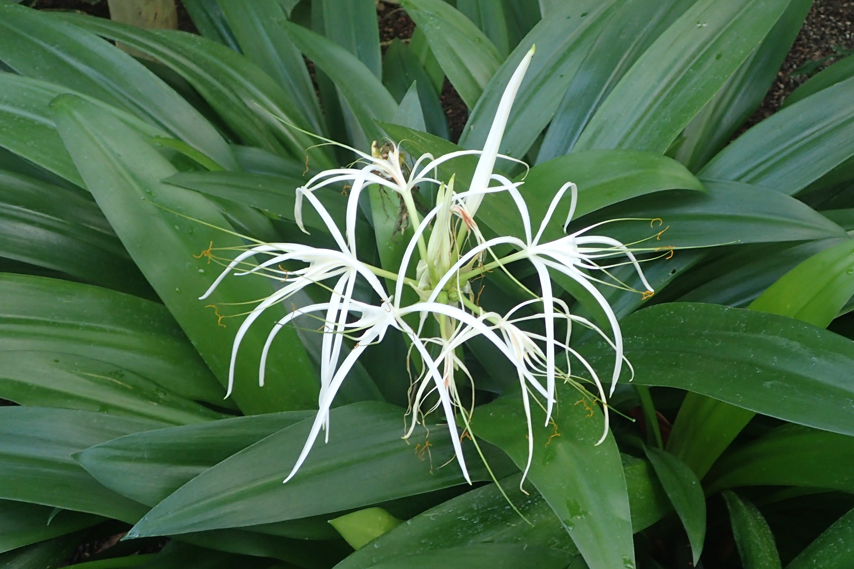 Hymenocallis caribaea in the Botanischer Garten, Berlin-Dahlem